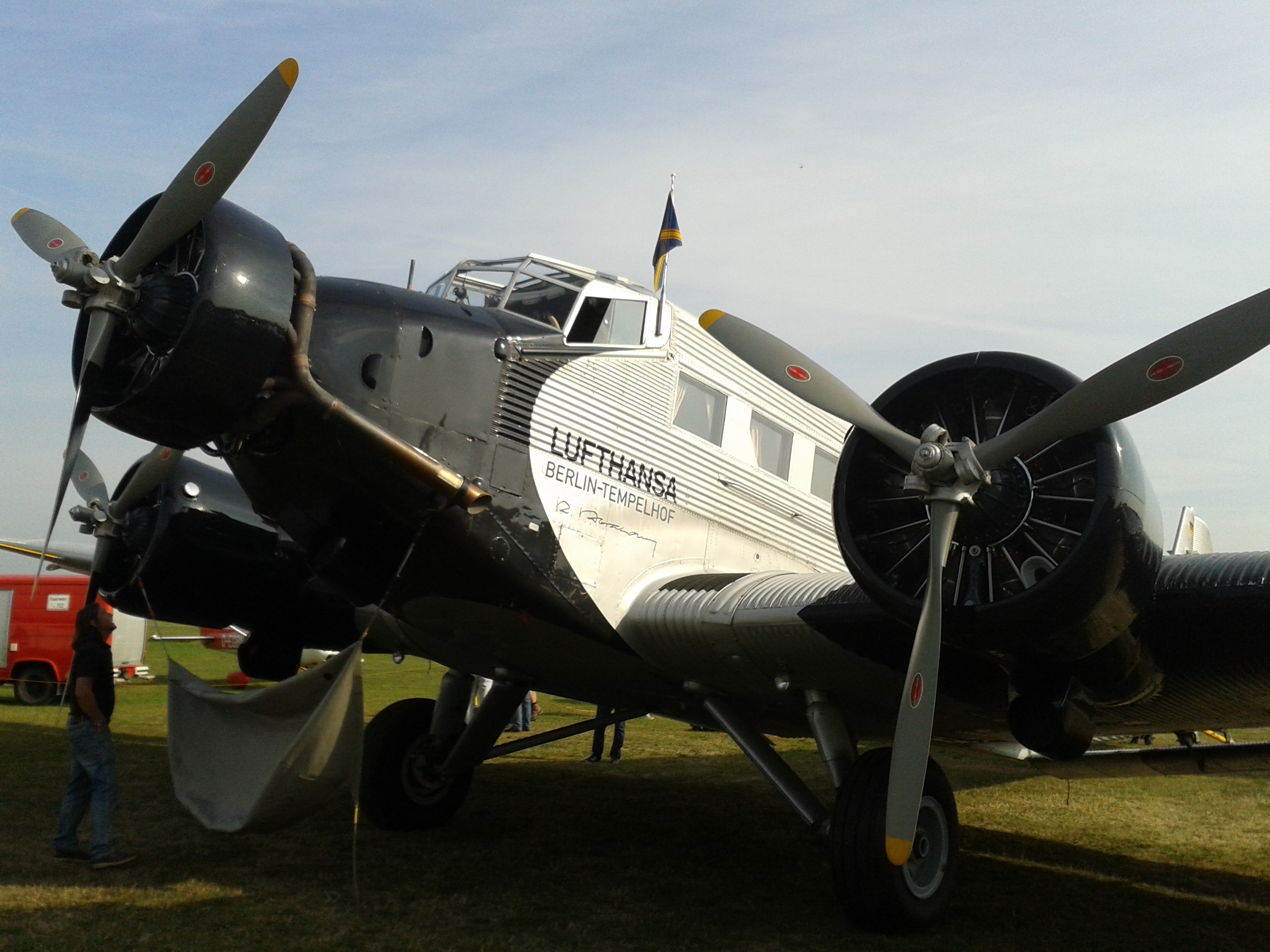 Tannkosh 2013 - Tempelhof